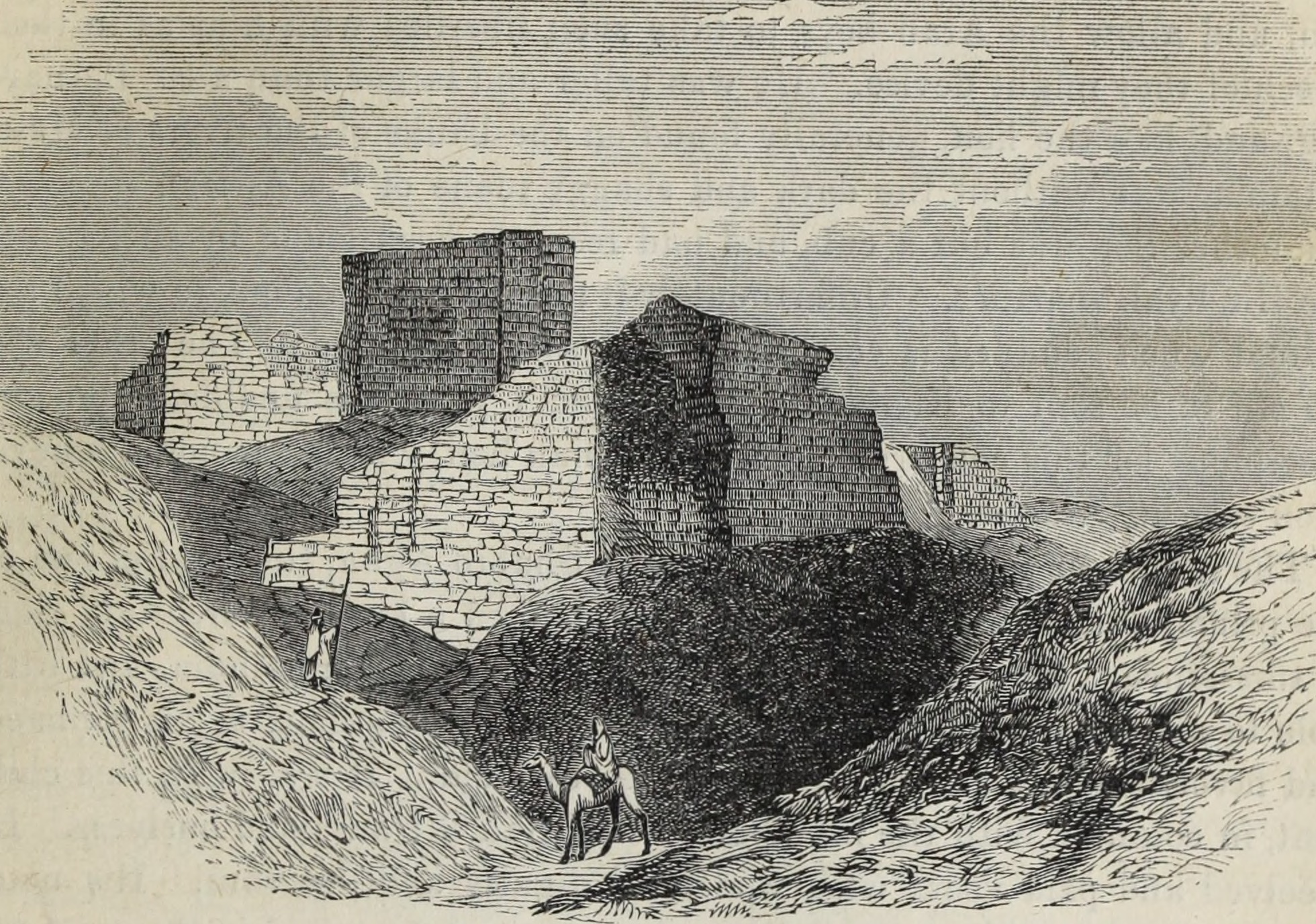 Title: Discoveries among the ruins of Nineveh and Babylon; with travels in Armenia, Kurdistan and the desert: being the result of a second expedition undertaken for the Trustees of the British museum Year: 1859 (1850s) Authors: Layard, Austen Henry, 1817-1894 Subjects: Scientific expeditions Publisher: New York : Harper & Brothers Text Appearing Before Image: El Kasr Mound, (Mound of Kasr). The Kasr, or Palace, of Rich; but the Arabs call it the Mujelibe, or the overturned. ' Text Appearing After Image: The Mujelibe or Kasr (from Rich). CHAPTER XXII. THE CHIEFS OF HILLAH. PRESENT OF LIONS. THE SON OF THE GOVERNOR. DESCRIPTION OF THE TOWN. ZAID. THE RUINS OF BABYLON. CHANGES IN THE COURSE OF THE EUPHRATES. THE WALLS. VISIT TO THE BIRS NIMROUD. DESCRIPTION OF THE RUIN. VIEW FROM IT. EXCAVATIONS AND DISCOVERIES IN THE MOUND OF BABEL IN THE MUJELIBE OR KASR. THE TREE ATHELE. EXCAVATIONS IN THE RUIN OF AMRAN. BOWLS, WITH INSCRIPTIONS IN HEBREW AND SYRIAC CHARACTERS. TRANSLATIONS OF THE INSCRIPTIONS. THE JEWS OF BABYLONIA. My first care on arriving at Hillah was to establish friendly relations with the principal inhabitants of the town as well as with the Turkish offi- cer in command of the small garrison that guarded its mud fort. Osman Pasha, the general, received me with courtesy and kindness, and during the remainder of my stay gave me all the help I could require. On my first visit he presented me with two lions. One was nearly of full size, and was well known in the bazars and thoroughfares of Hillah, through which he was allowed to wander unrestrained. The inhabitants could accuse him of no other objectionable habit than that of taking possession of the stalls of the butchers, who, on his approach, made a hasty retreat, leaving him in undisturbed possession of their stores, until he had satisfied his hunger and deemed it time to depart. He would also wait the coming of the large kuffas, or wicker boats, of the fishermen, and driving away their owners.